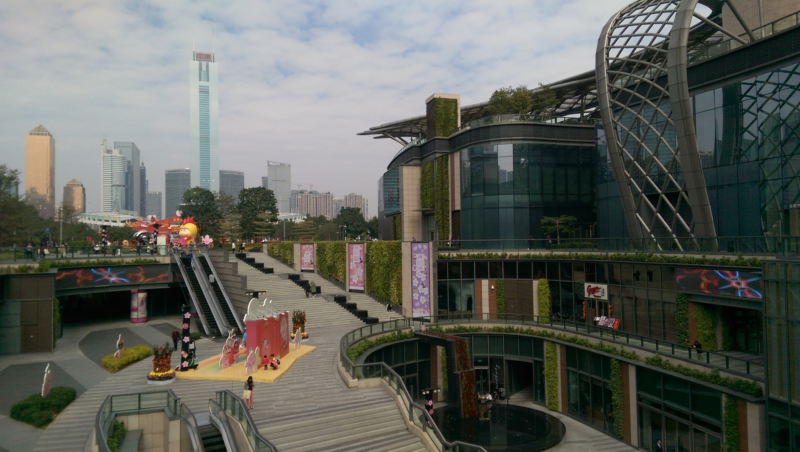 CITIC Plaza seen from Parc Central.